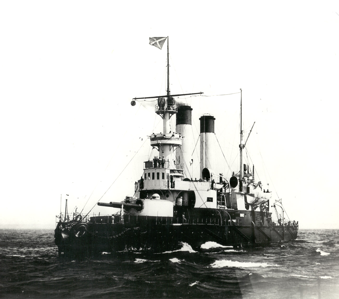 Imperial Russian coastal battleship General-admiral Apraksin.